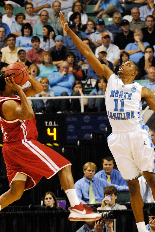 Radford's Amir Johnson tries to get a shot off while North Carolina guard Larry Drew II defends.